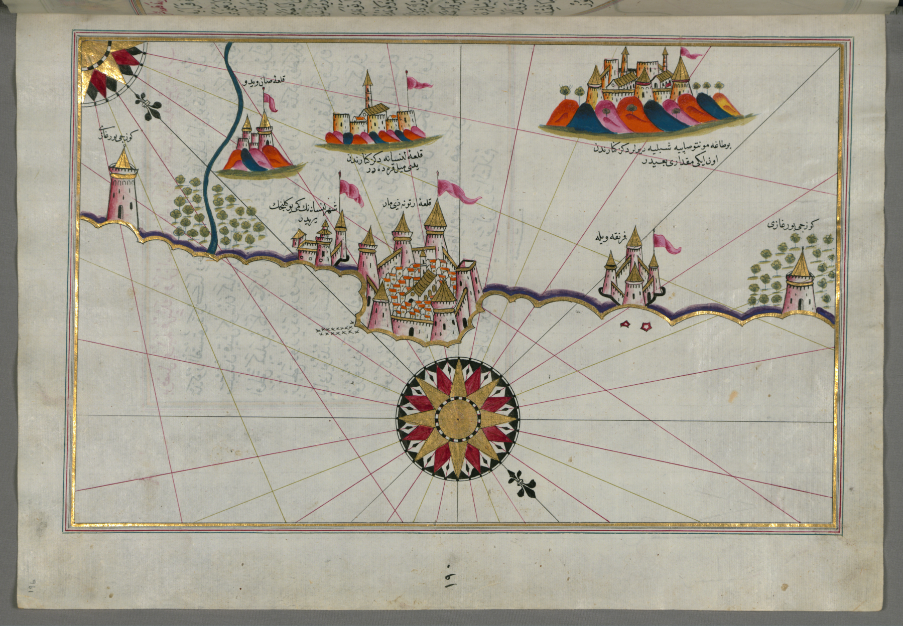 This folio from Walters manuscript W.658 contains a map of the town of Lanciano (Lansane) and the surrounding fortresses.